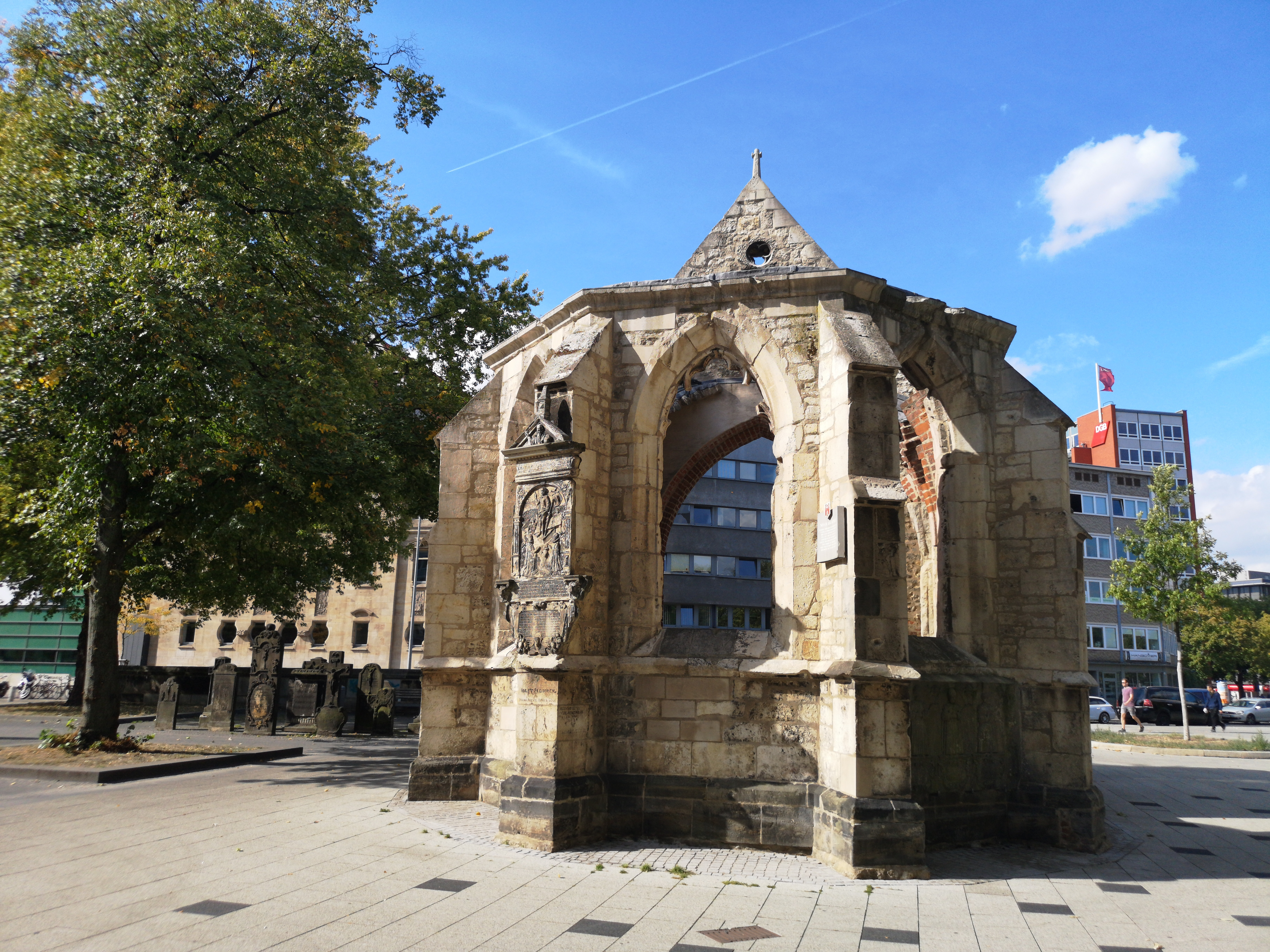 Nikolaikapelle in Hannover (Mitte) Goseriede in 2018